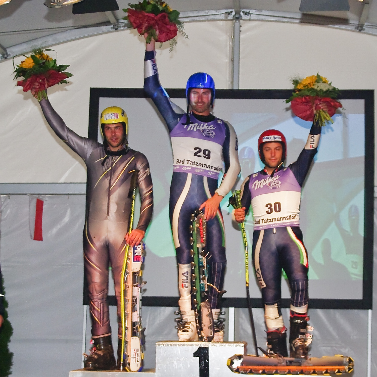 Grass Skiing World Championships 2009 in Rettenbach, Austria. Men's Super-G, Prize Geving Ceremony: 1st Place: Riccardo Lorenzone (ITA), 2nd Place: Jan Němec (CZE), 3rd Place: Edoardo Frau (ITA)